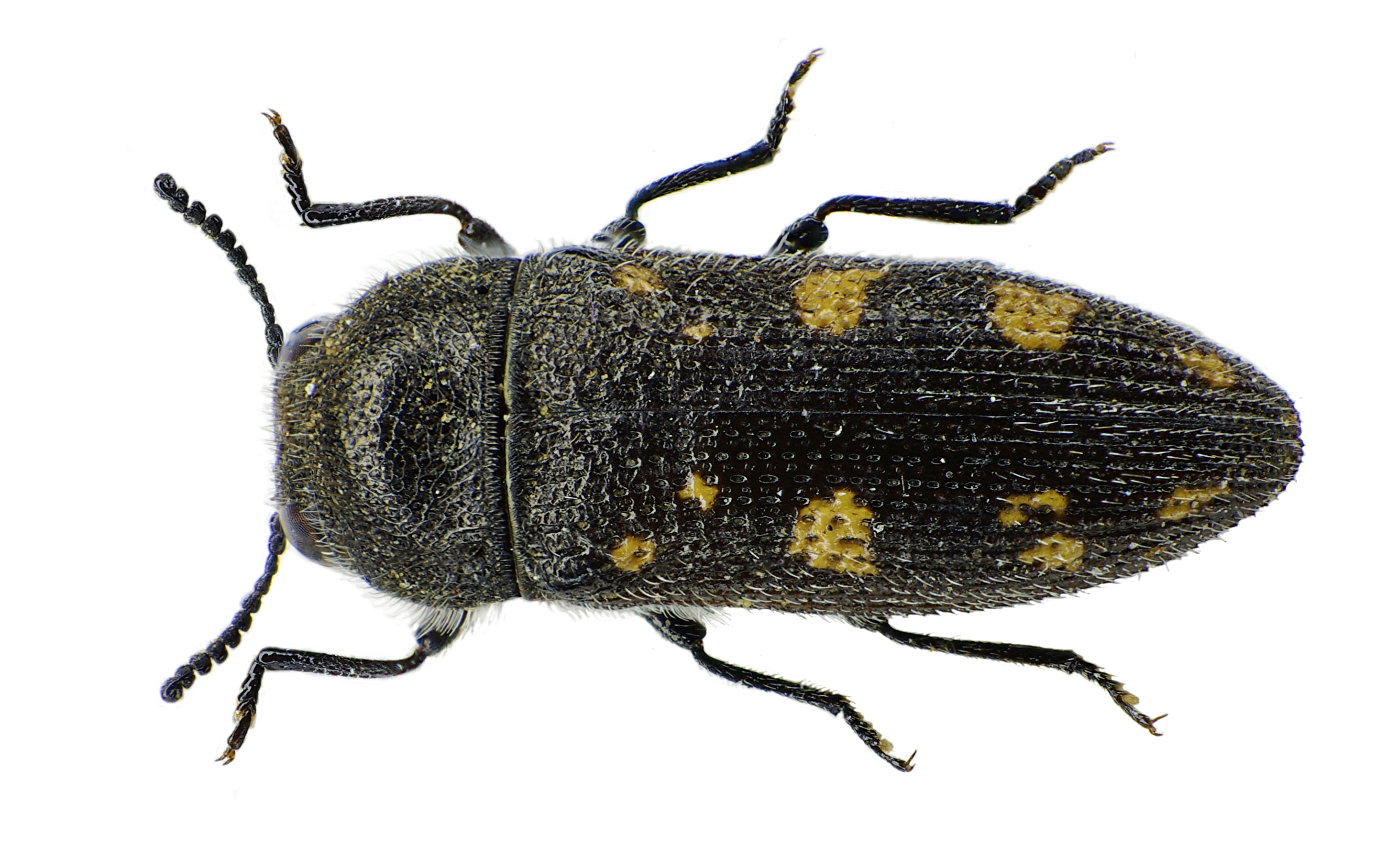 Acmaeodera bipunctata from Greece